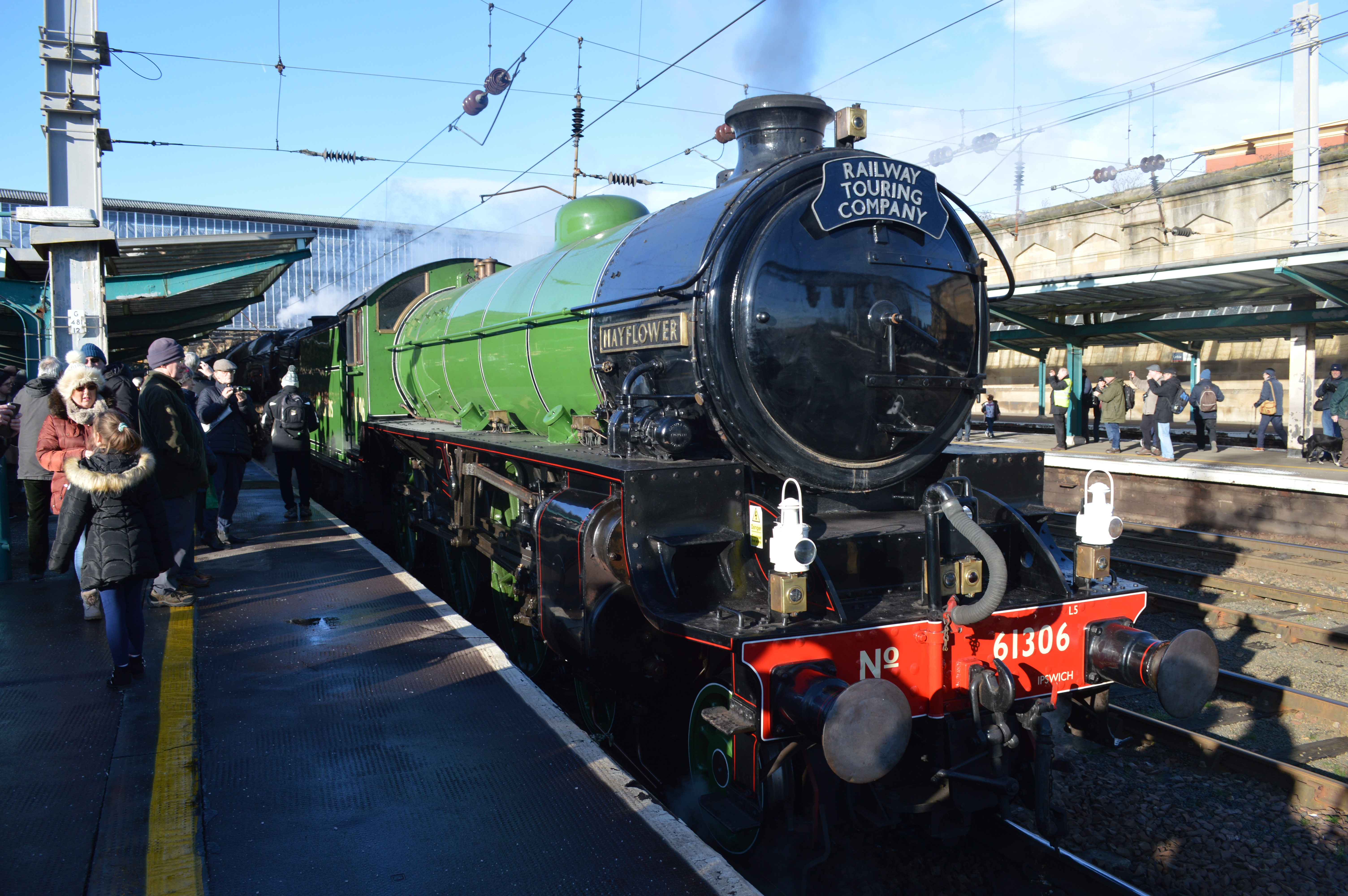 Following servicing and turning in Carlisle, the freshly overhauled BR built Thompson B1 no 61306 Mayflower is seen at the southern end of Carlisle Citadel's platform 3 with the returning "Winter Cumbrian Mountain Express" which was running back to London Euston via the Settle and Carlisle line.